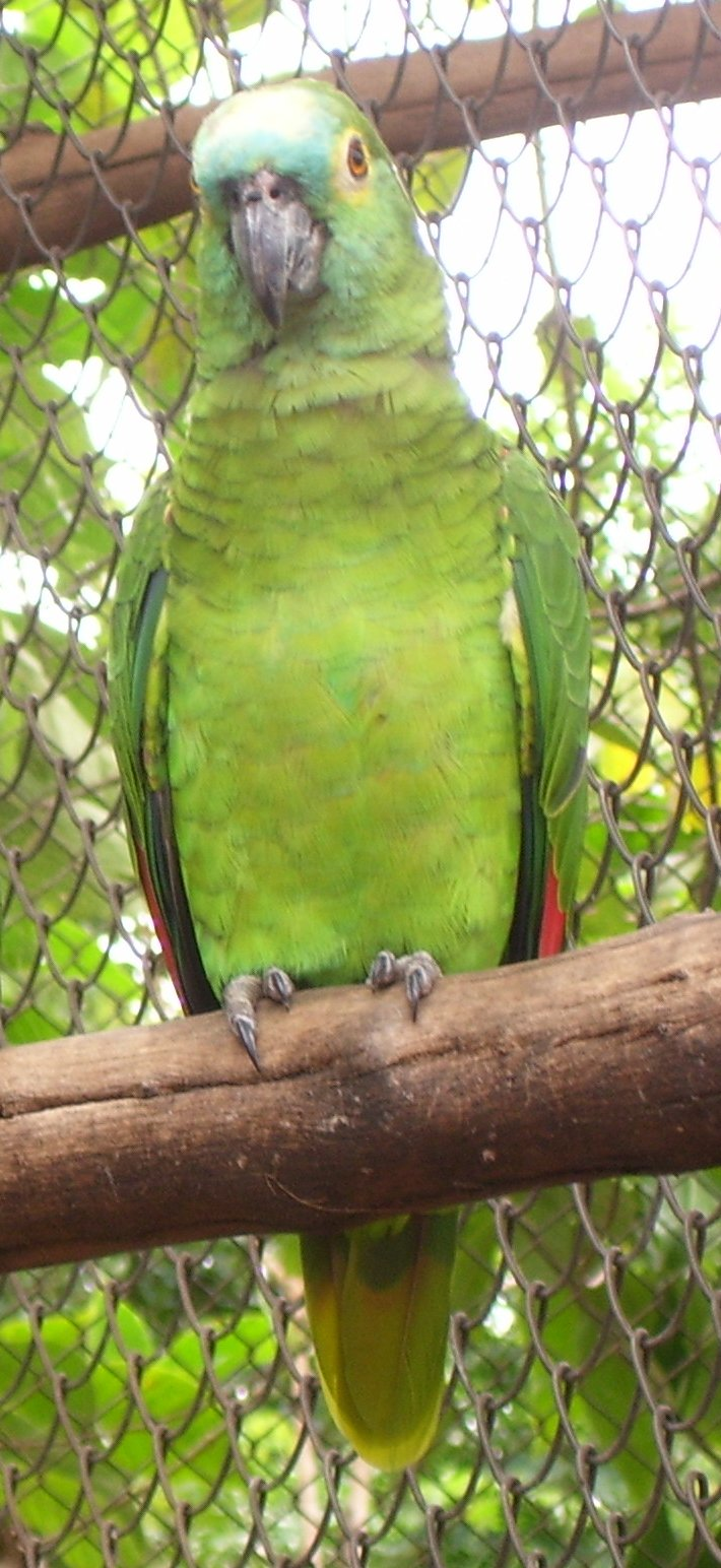 Blue-fronted Parrot (Amazona aestiva), in the zoo of Federal University of Mato Grosso, Cuiabá, Brazil.